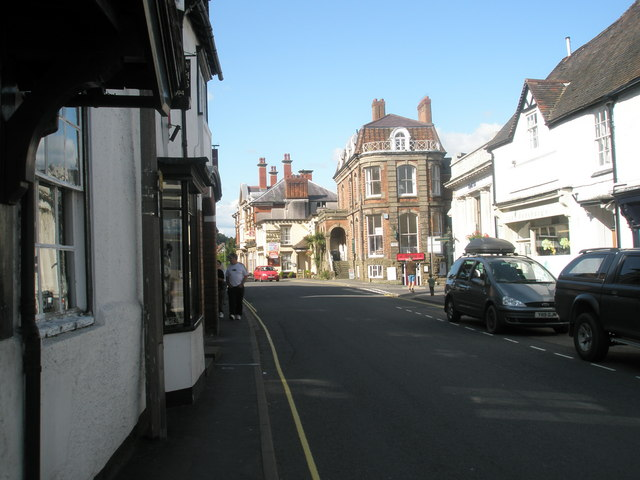 A summer stroll in Church Stretton